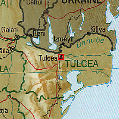 Map of Tulcea Municipality, Romania.